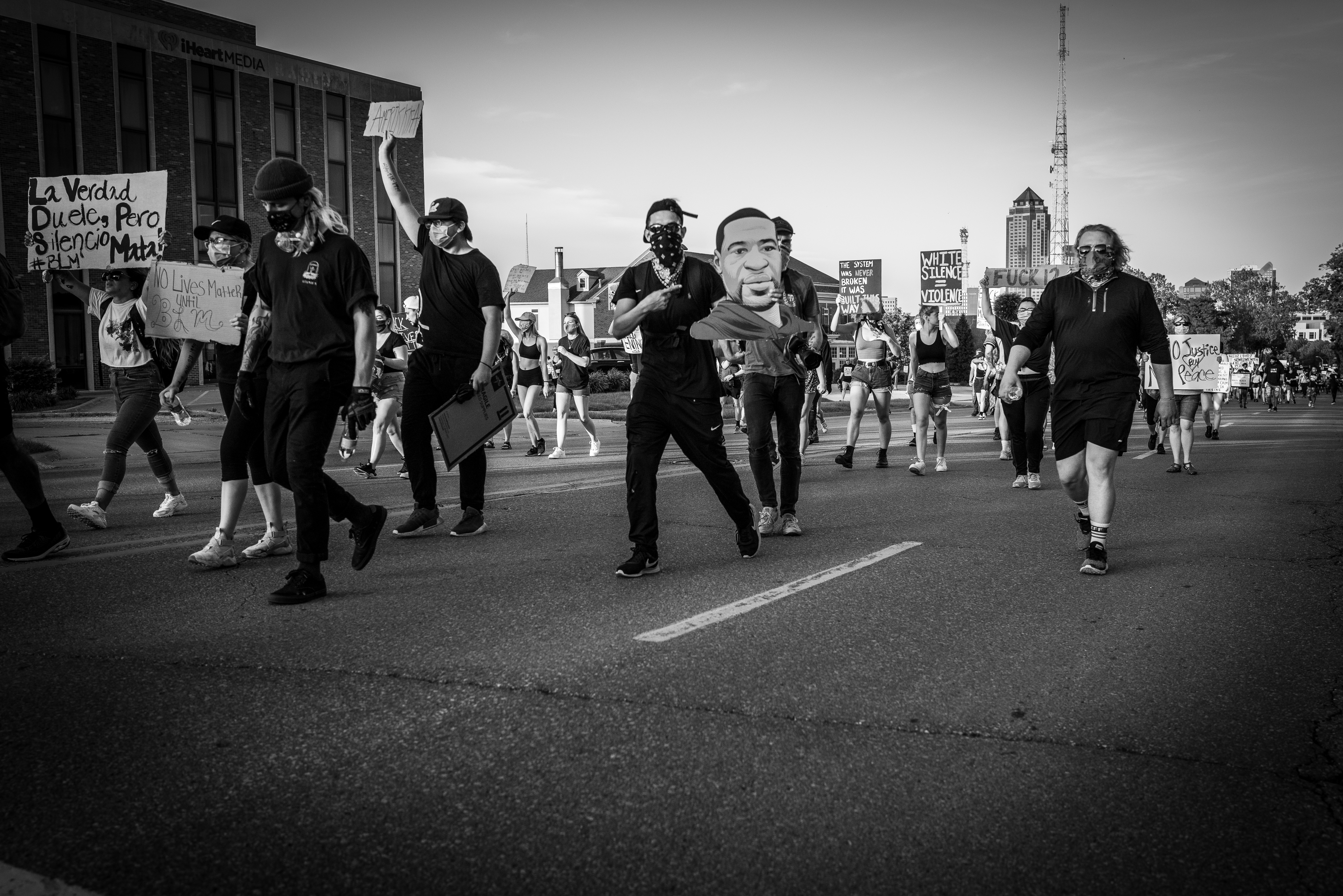 Well over a thousand people marched up Grand Avenue in Des Moines before ending up on the front lawn of Terrace Hill, the Governor's mansion (she didn't come outdoors). The event was one of countless held over the past week to protest the police murder of George Floyd and racial injustice.